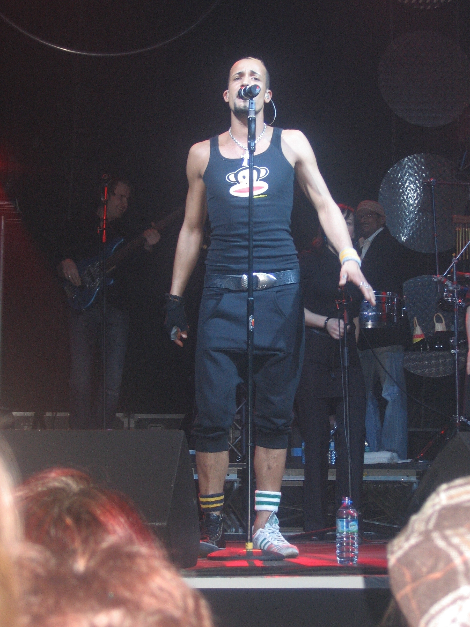 Medlock live (2008)